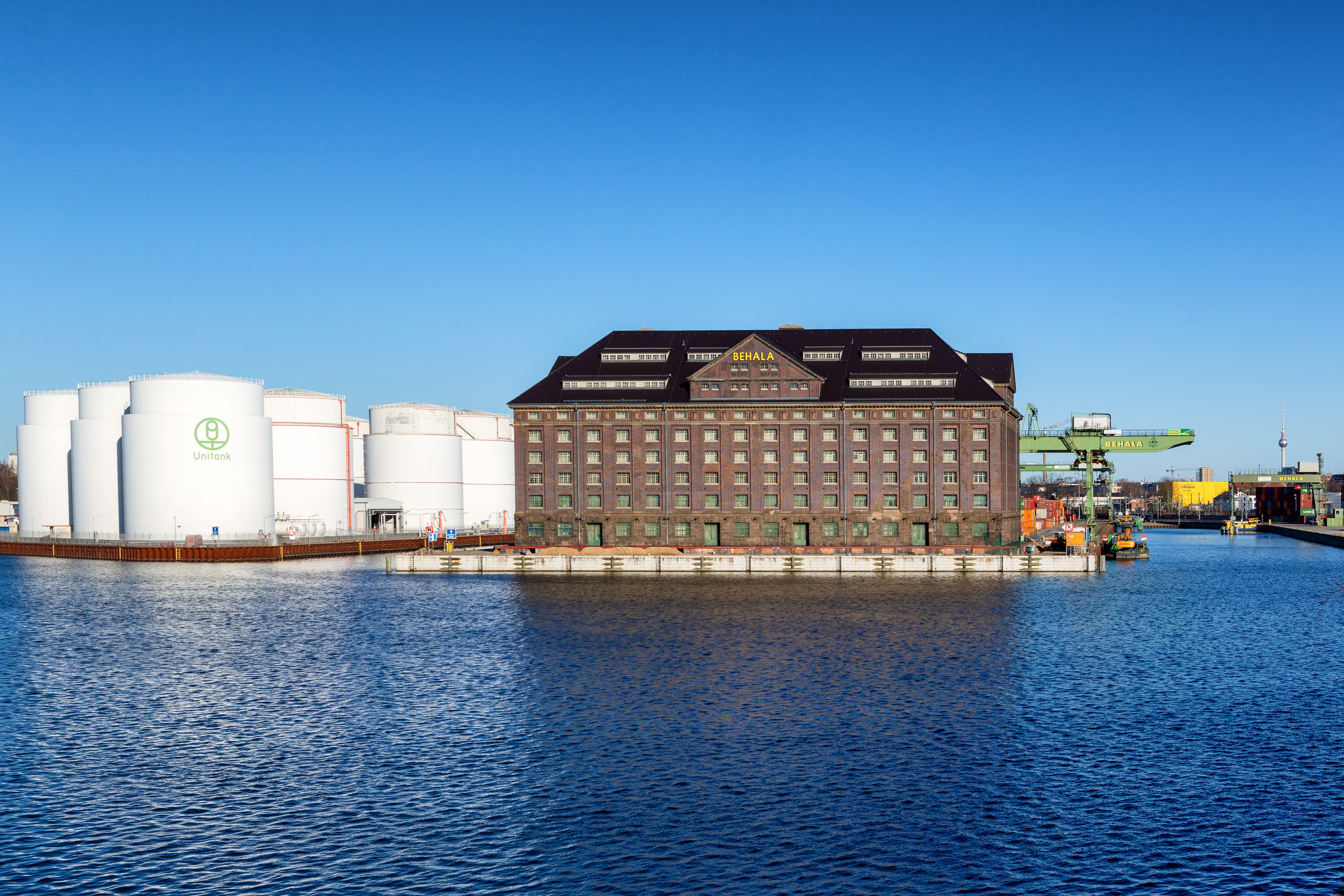 View from West onto the Westhafen area